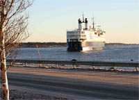 Ferry accident